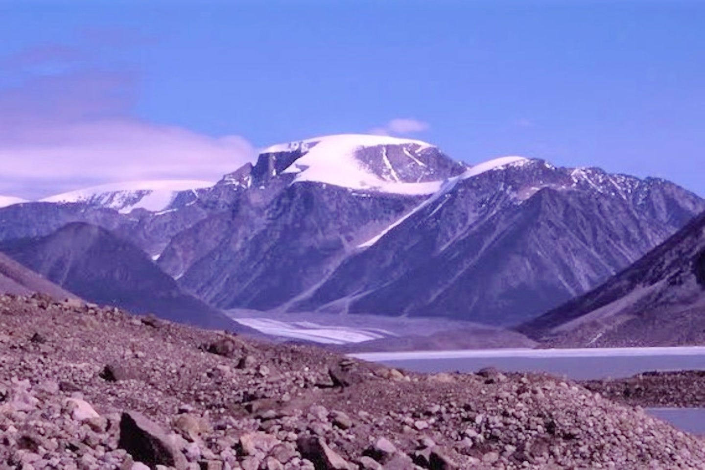 Midnight Sun Peak from Akshayuk Pass above Summit Lake, showing the entire massif from pass level to summit.